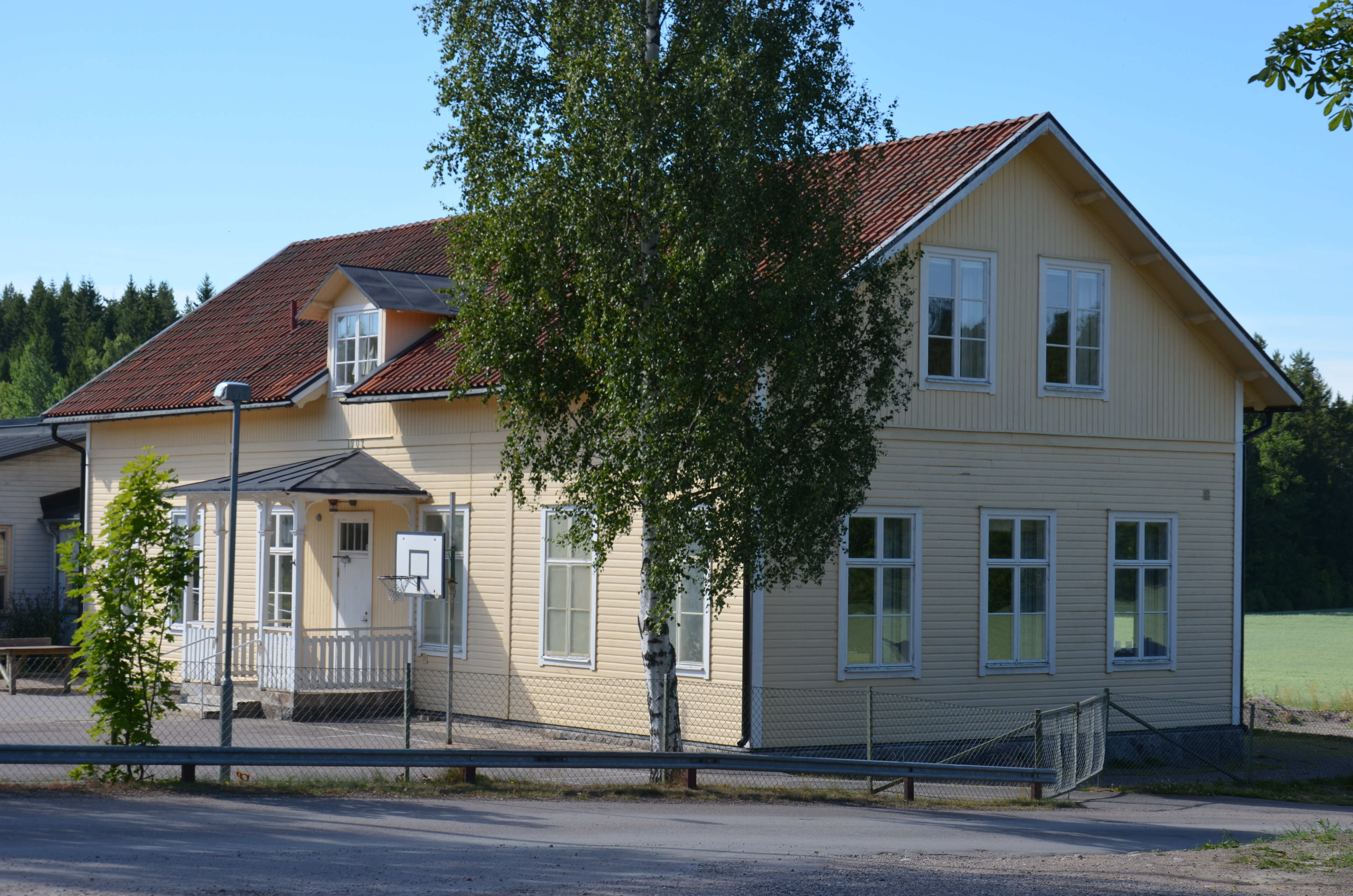 Sankt Anna skola, Söderköping Municipality, Sweden